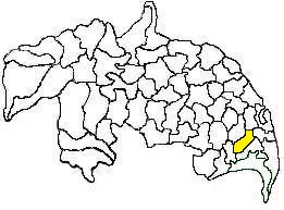 Mandal map of Guntur district showing Cherukupalle mandal (in yellow)